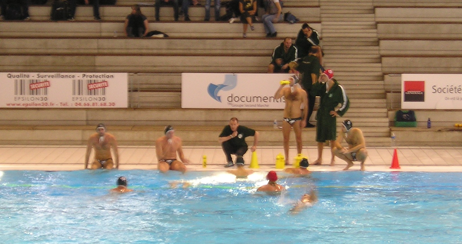 Montpellier, LEN Trophy first round, Bucarest vs. Budapest: strategic discussion during half-time with FTC Budapest trainer Gabor Godova.